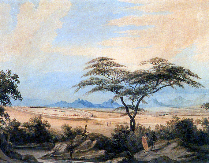 Water painting of a Ndebele kraal. Judging by date and size it must be Mzilikazi's royal kraal eGabeni, also known as Kapain.